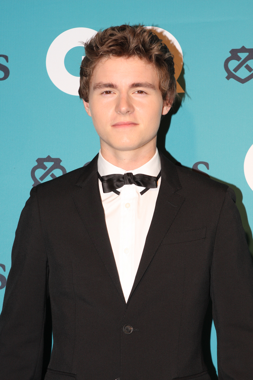 Callan McAuliffe attending the Chivas Regal GQ Men of the Year Awards at the Ivy Ballroom in Australia last November 2012.